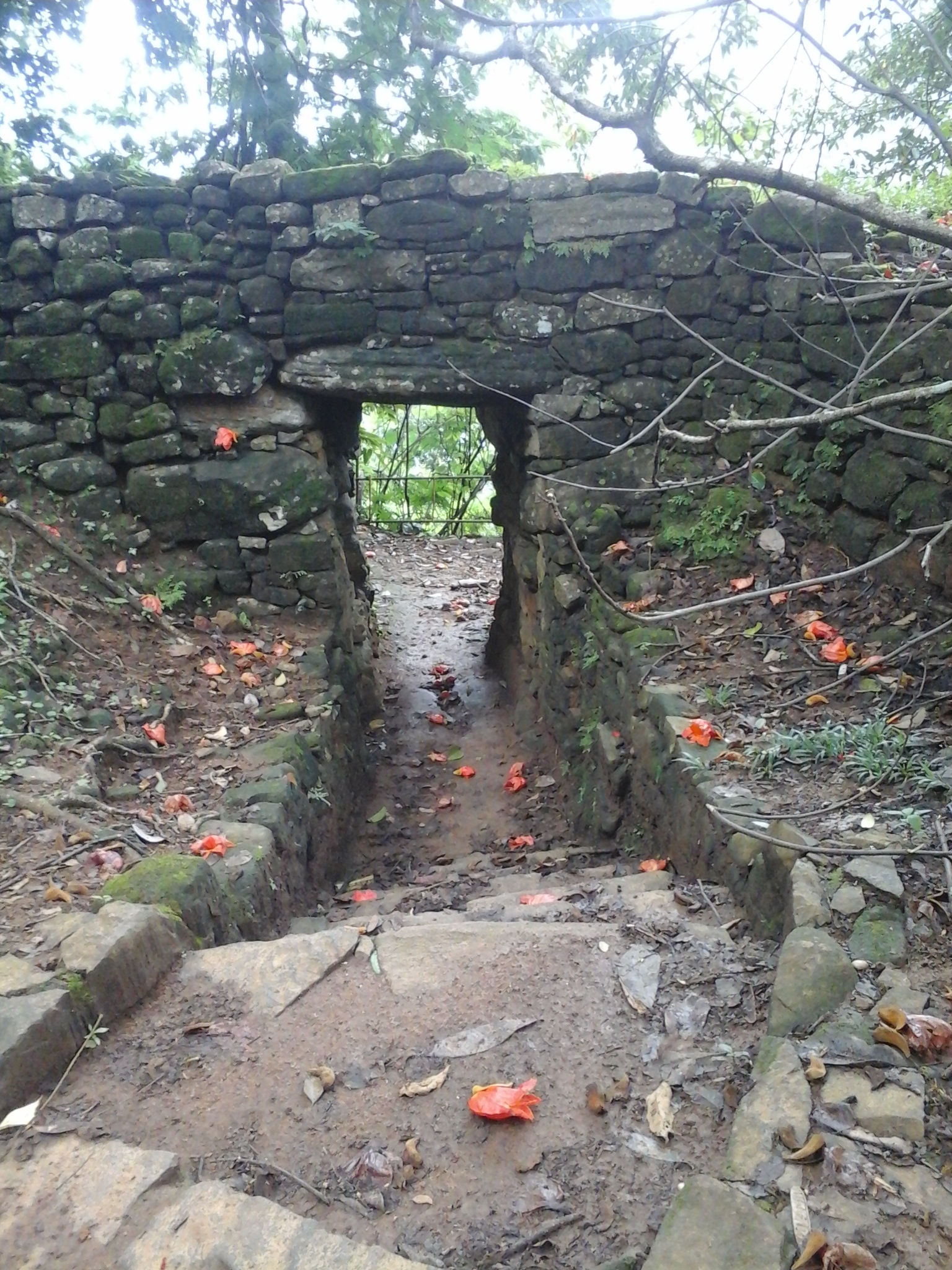 Dehadu Kadulla